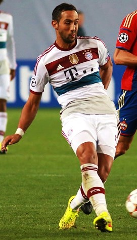 Mehdi Benatia